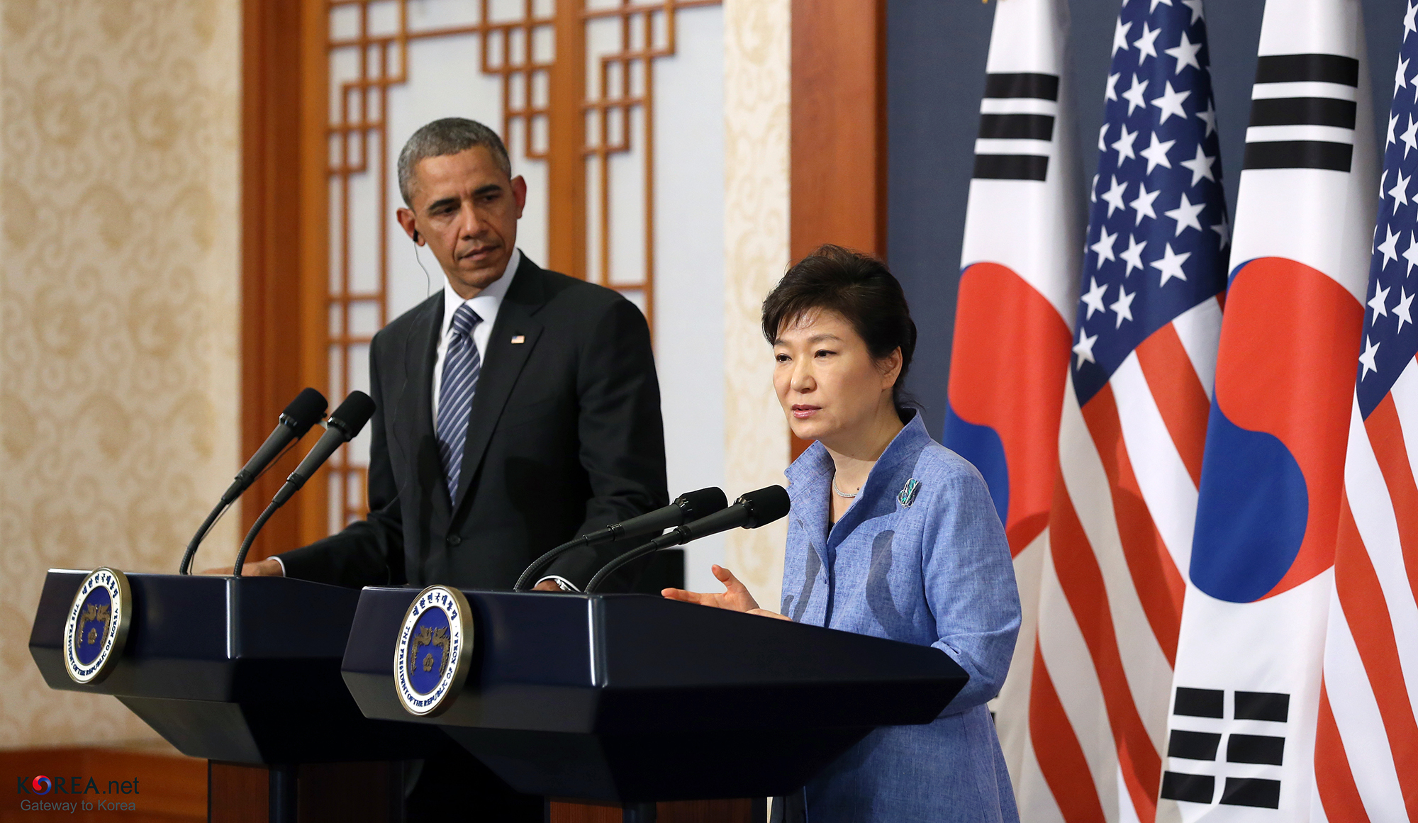 The Official Visit of Barack Obama President of the United States of America President Park Geun-hye and U.S. President Barack Obama attend a joint press conference at Cheong Wa Dae Cheong Wa Dae, Seoul Ministry of Culture, Sports and Tourism Korean Culture and Information Service ( Official Photographer: Jeon Han 버락 오바마 미국 대통령 공식 방한 박근혜 대통령과 버락 오바마 미국 대통령이 25일 청와대에서 공동기자회견을 하고 있다. 2014-04-25 청와대 문화체육관광부 해외문화홍보원 전한